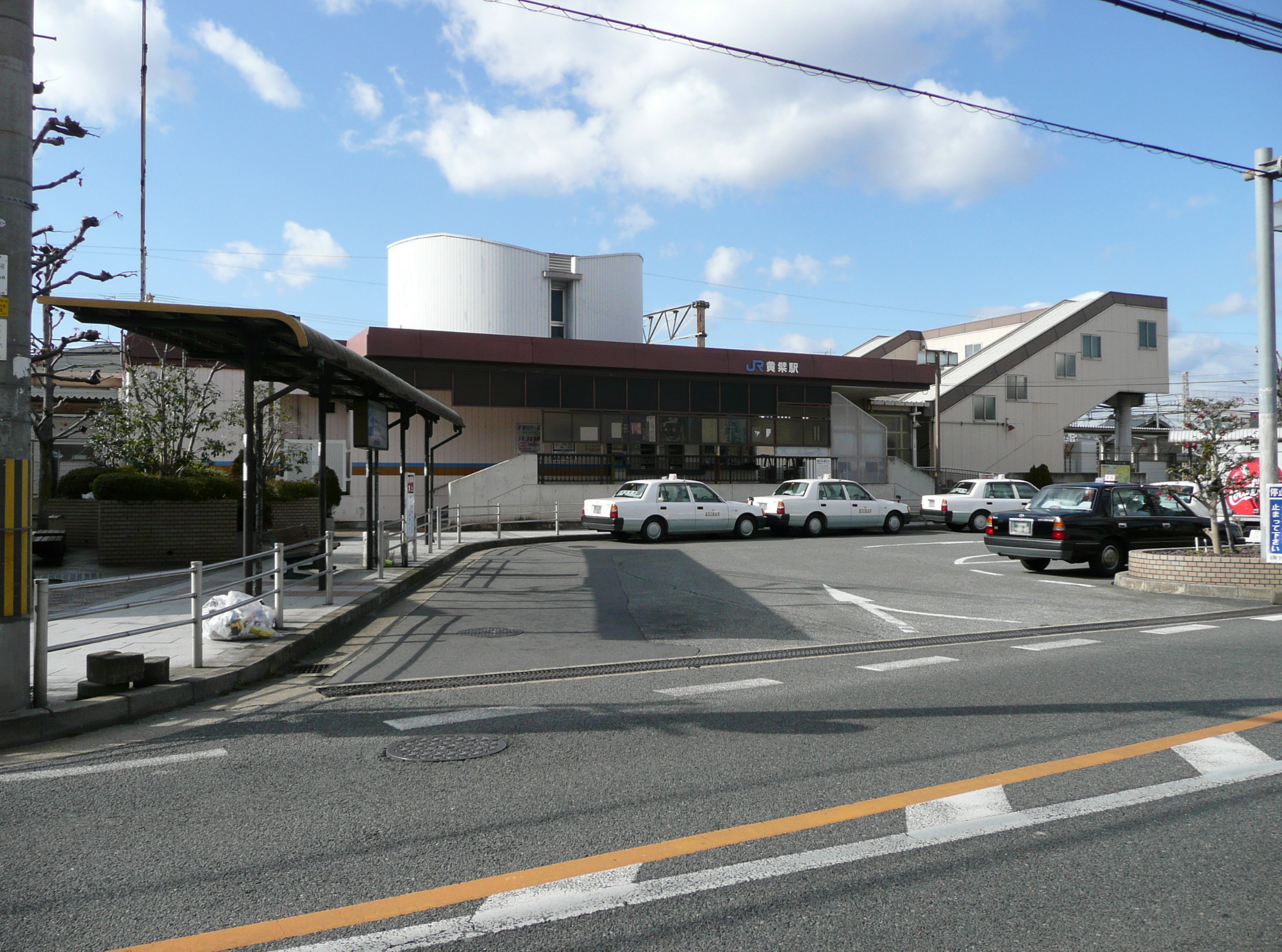 West Japan Railway,Nara Line,Obaku Station. / 奈良線黄檗駅